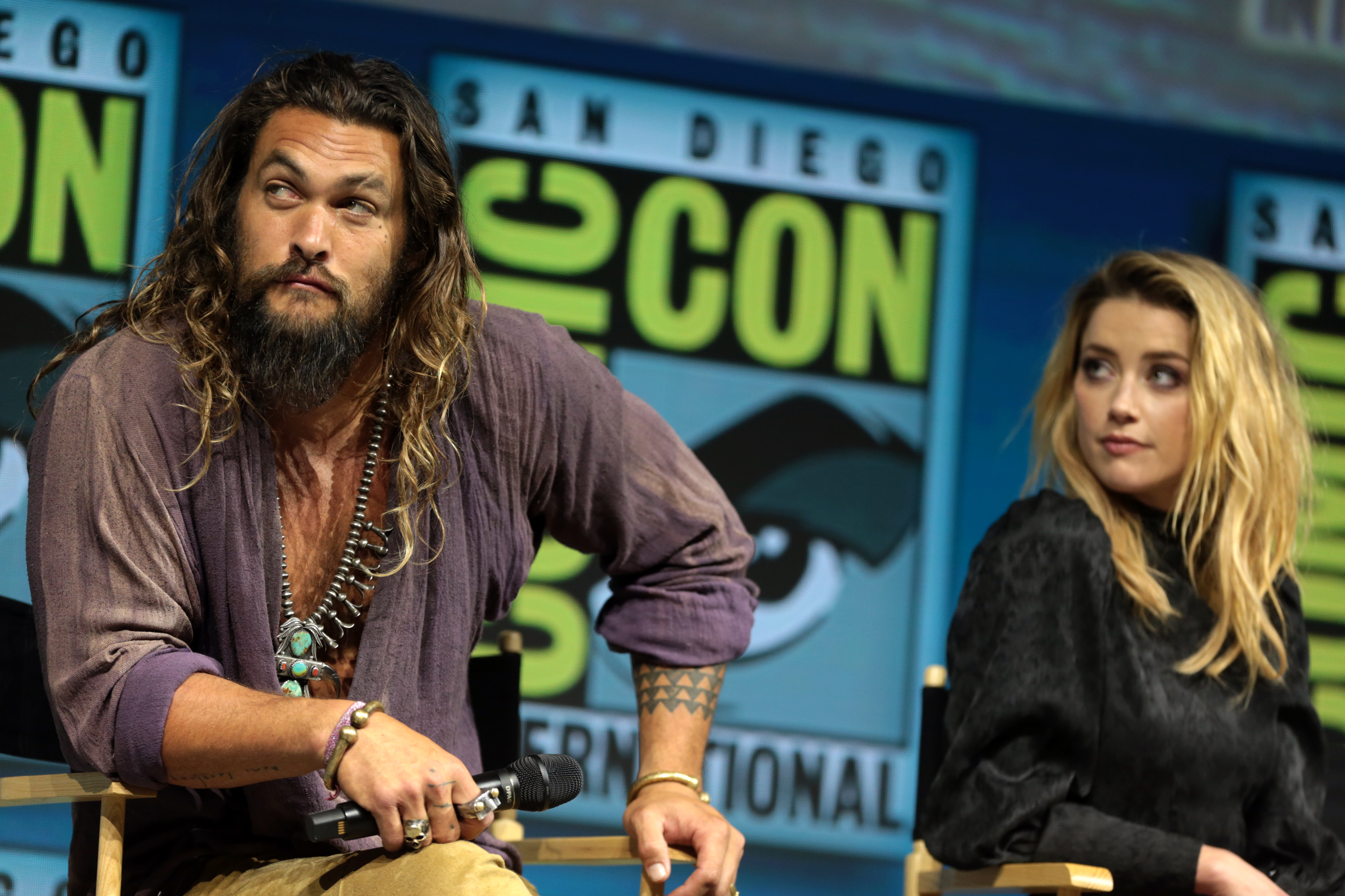 Jason Momoa and Amber Heard speaking at the 2018 San Diego Comic Con International, for "Aquaman", at the San Diego Convention Center in San Diego, California.